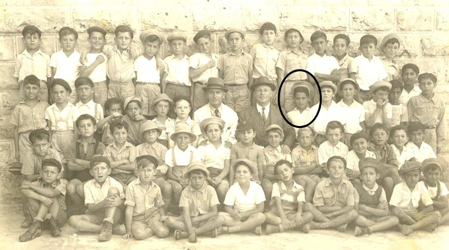 Joseph Dan as a kid in 3rd grade, marked with a black circle